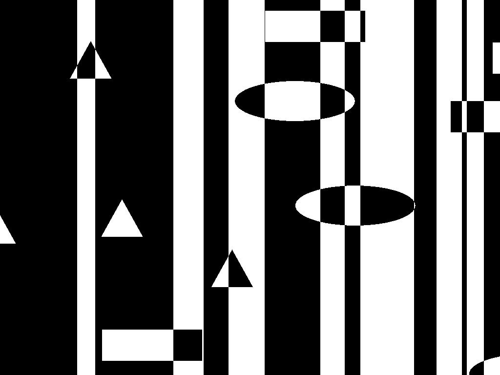 A screenshot from a program which uses that stencil buffer to change the color of shapes as they pass over other shapes. The stencil buffer is filled with 1s where-ever a white stripe is drawn and 0s elsewhere. Two versions of each oval, square, or triangle are then drawn, and the stencil buffer is used to decide per-pixel which object to draw. A black colored shape is drawn where the stencil buffer is 0, and a white shape is drawn where the buffer is 1.